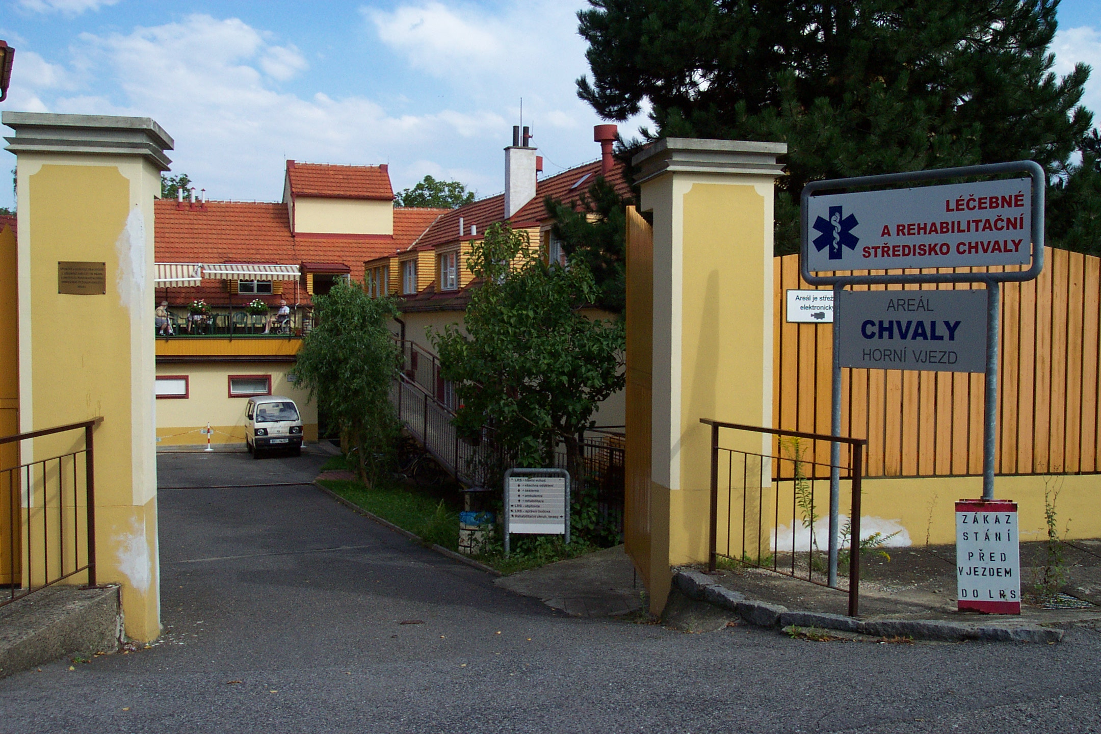 Horní Počernice, eastern part of Prague